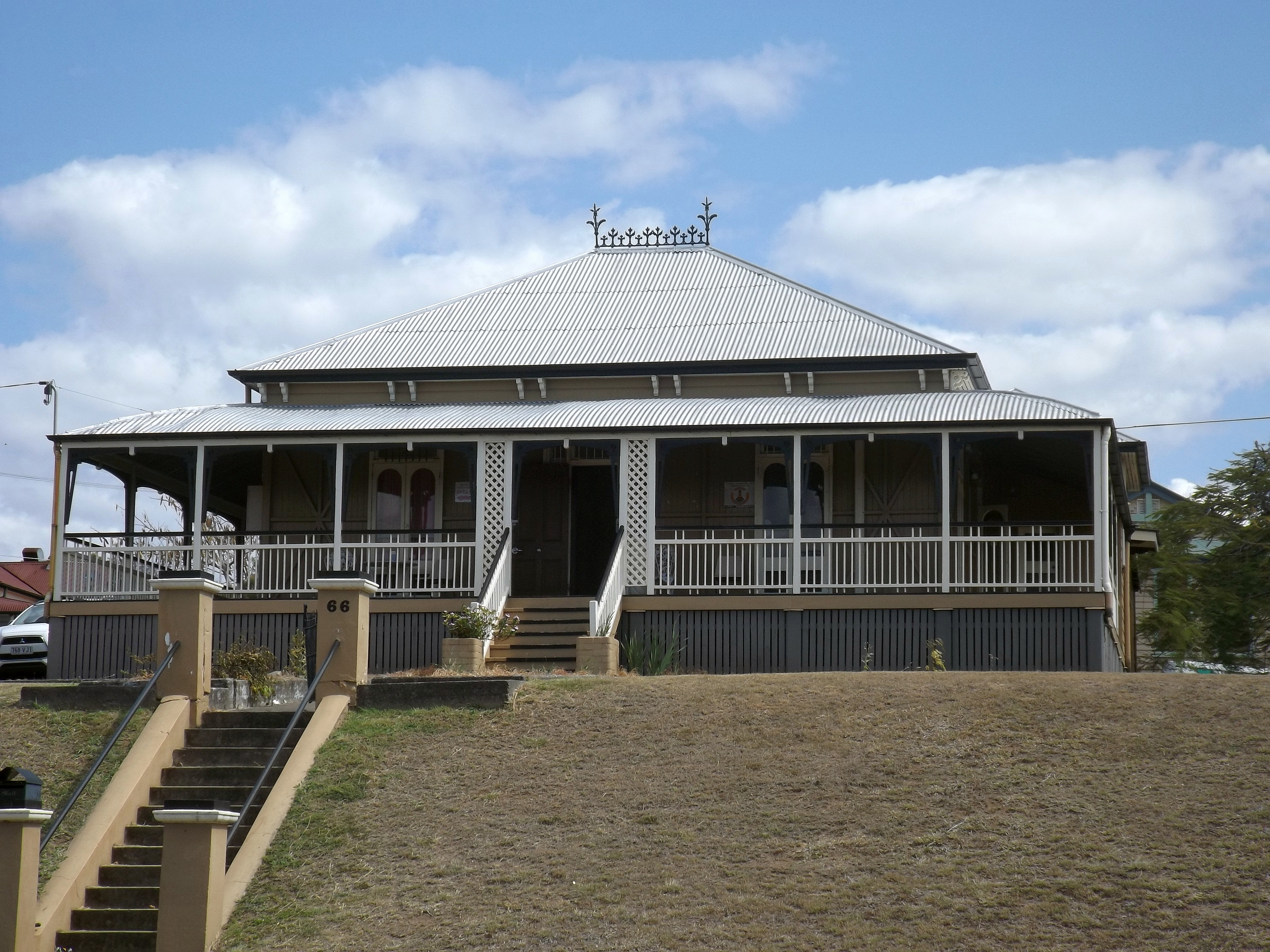 Photo of Ozanam House at West Ipswich, Queensland, Australia.